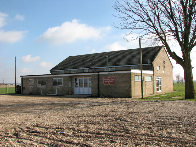 Barroway Drove village hall Until the early 20th century the village of Barroway Drove - now part of the parish of Stowbridge - was referred to as part of Stow Bardolph Fen. In 1943 an airplane belonging to the 379th BG, 525 Squadron - the 42-31083 FR A "Tenny Belle" - crashed in the village after a mid-air explosion, killing all but one crew member.